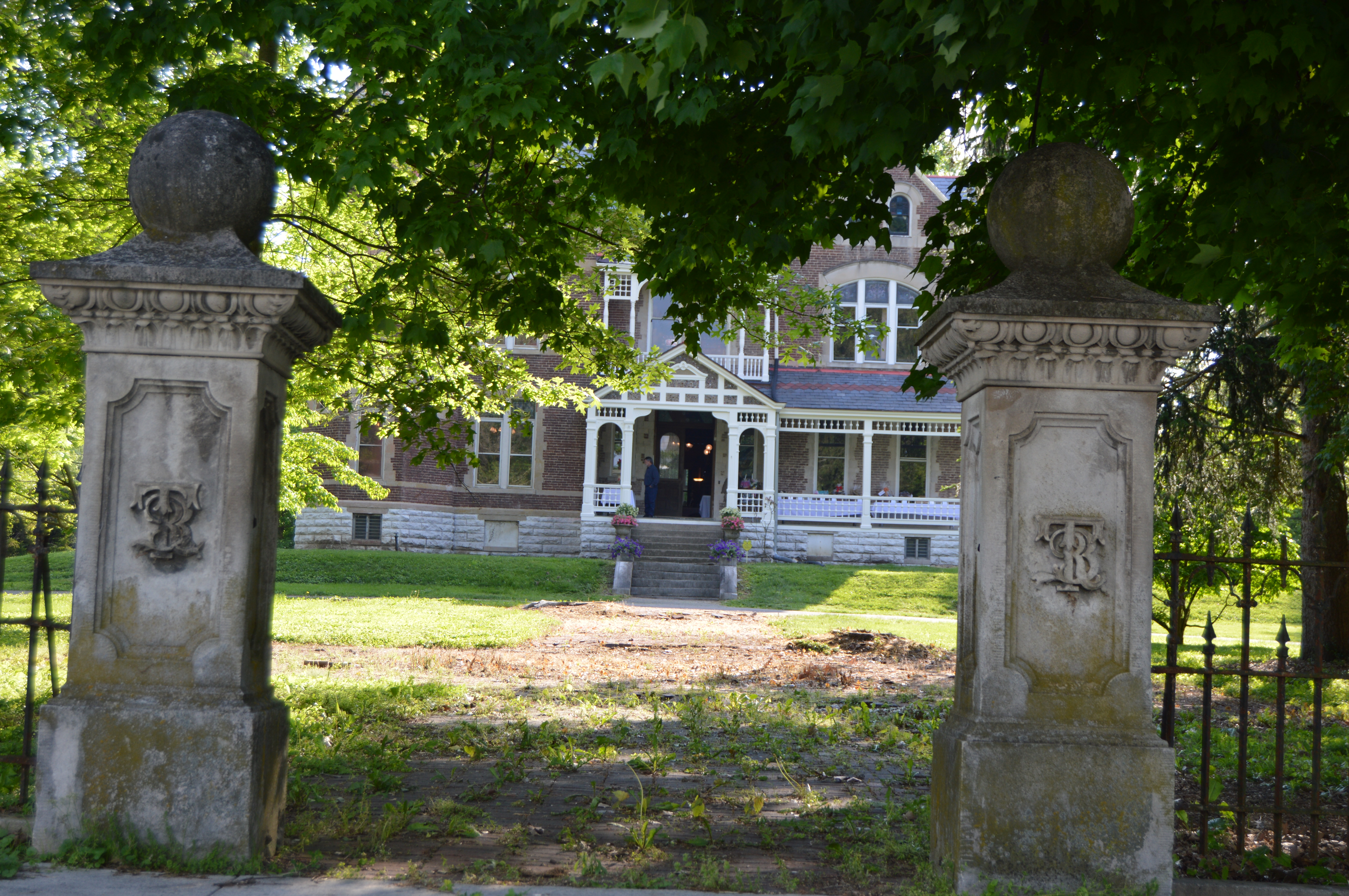 Front of the T.B. Ripy House, located at 320 S. Main Street (U.S. Route 62) in Lawrenceburg, Kentucky, United States. Built in 1888, it is listed on the National Register of Historic Places.